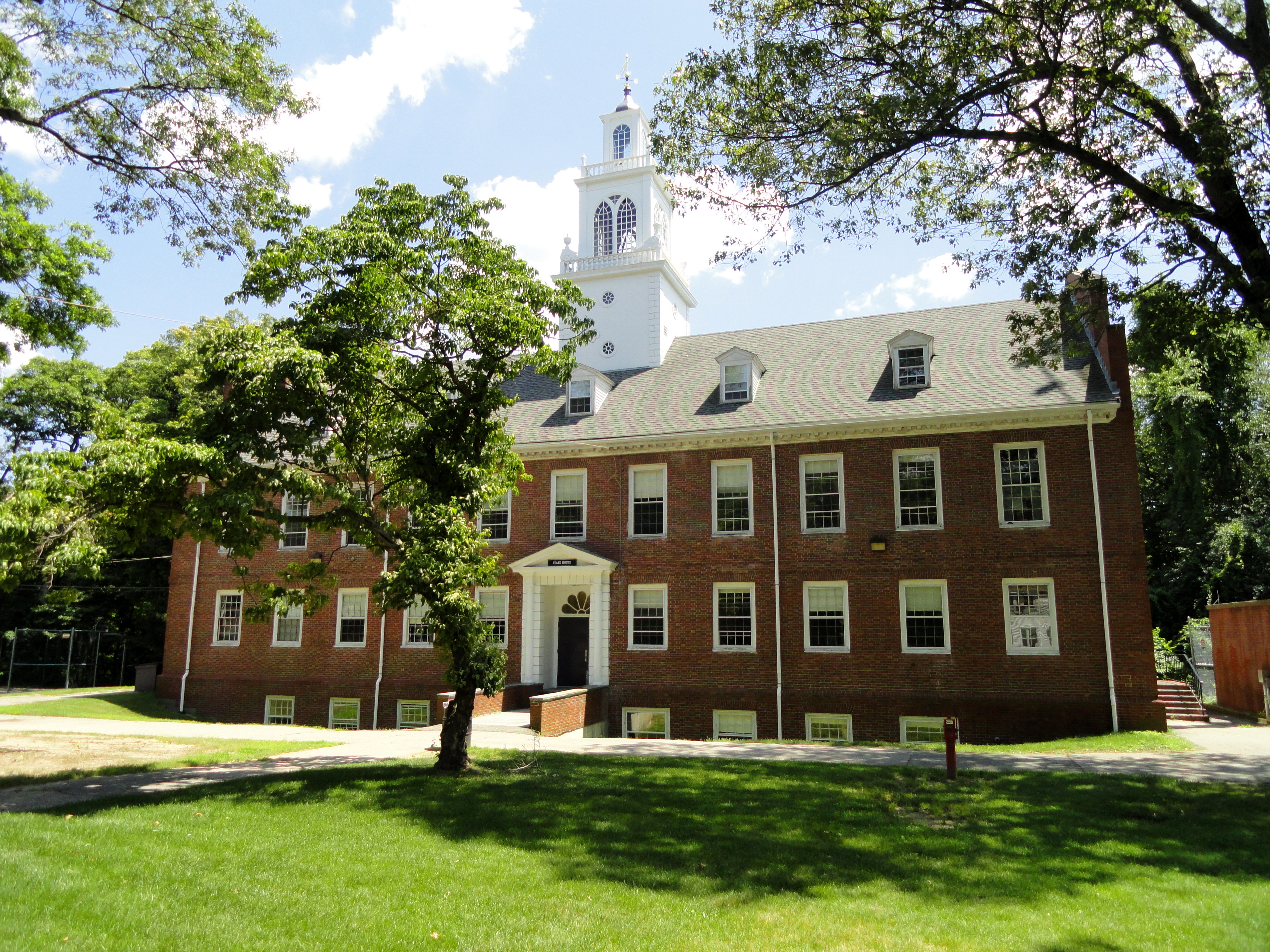 Curry College, 1071 Blue Hill Avenue, Milton, Massachusetts, USA.